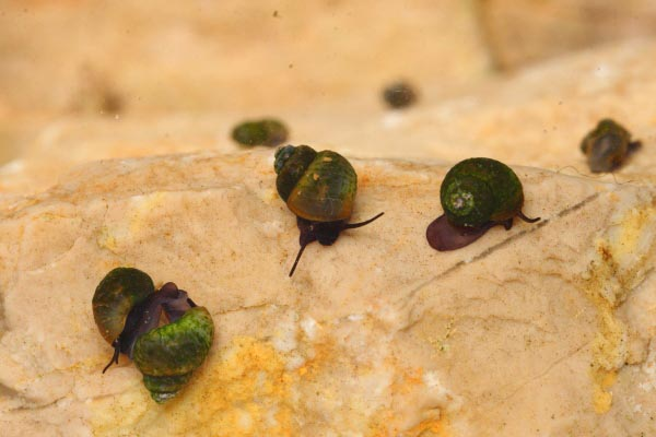 Sadleriana bavarica, Munich, Germany